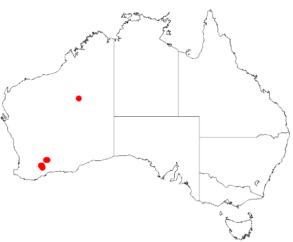 Acacia lanuginophylla Occurrence data from Australasia Virtual Herbarium downloaded from on 8 December 2018